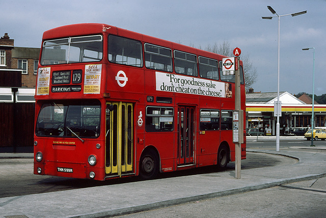 Chingford Bus Station, near to Chingford, Waltham Forest, Great Britain. DMS1599 stands in the station on a 179 service to Barking. The road beyond is Station Road. The Shell garage on the opposite side of the road is now just a car dealership. That's an unusual three-headed street light on the left.